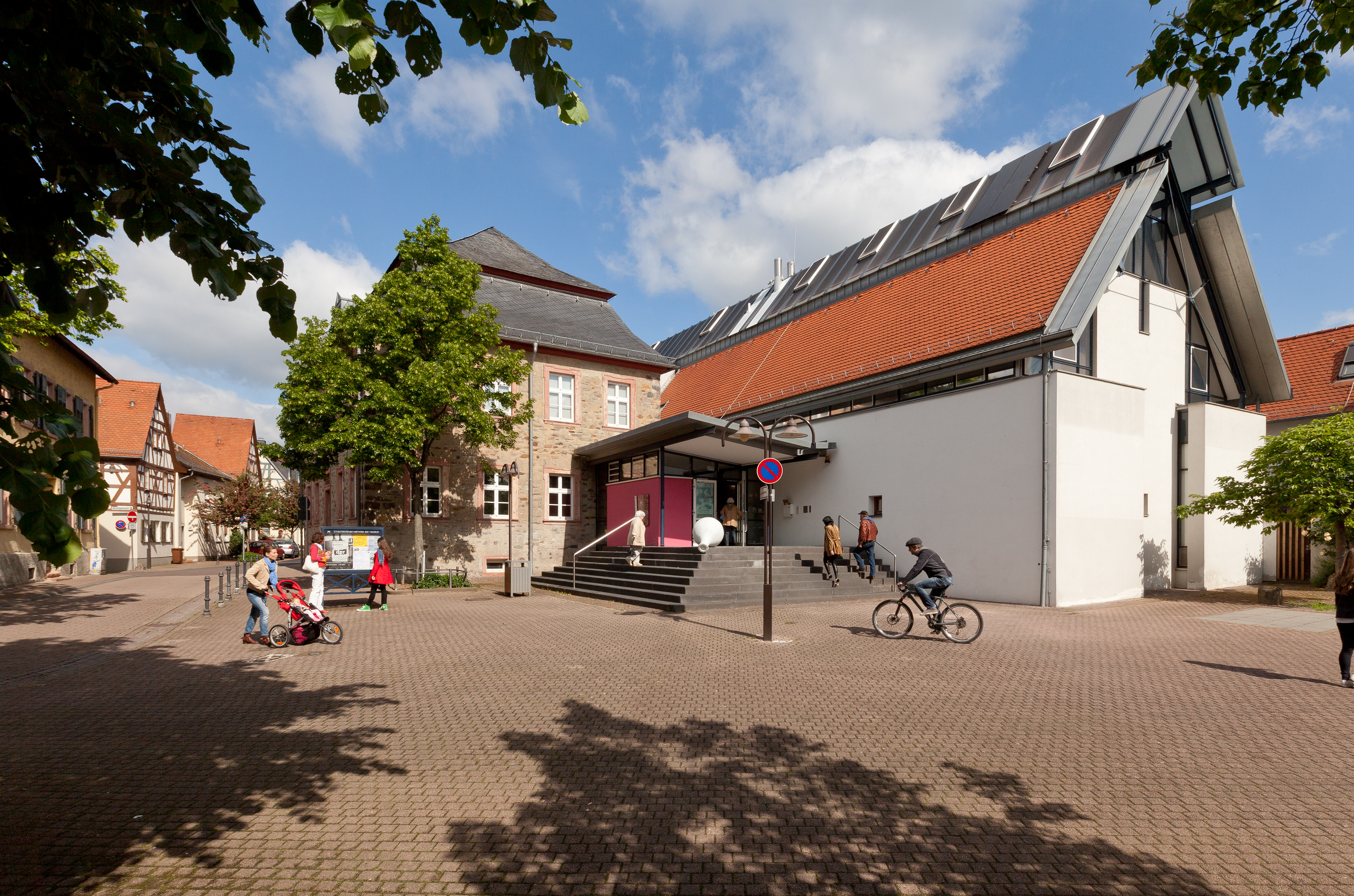 Stadtmuseum Hofheim am Taunus